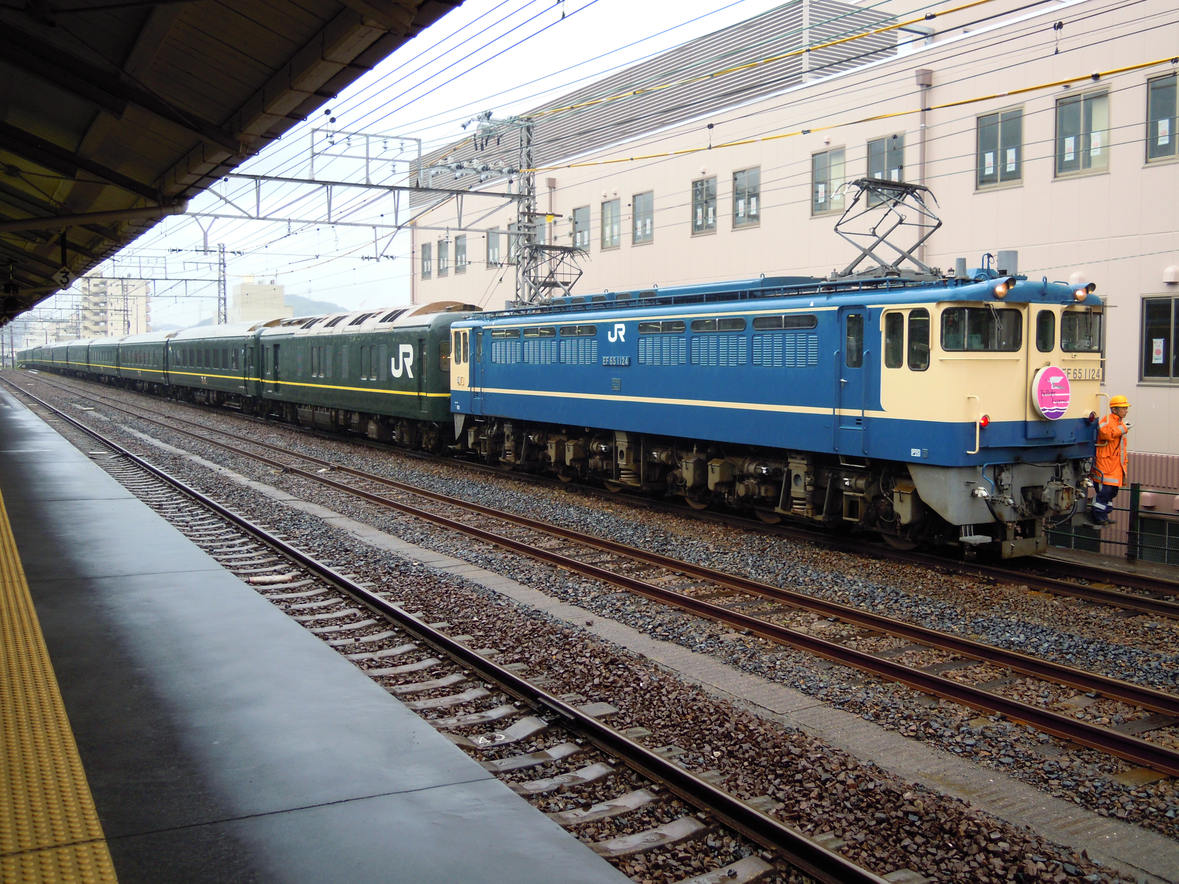 JR West Class EF65 electric locomotive EF65 1124 at Shimonoseki Station with a rake of Twilight Express sleeping cars used on a special charter service